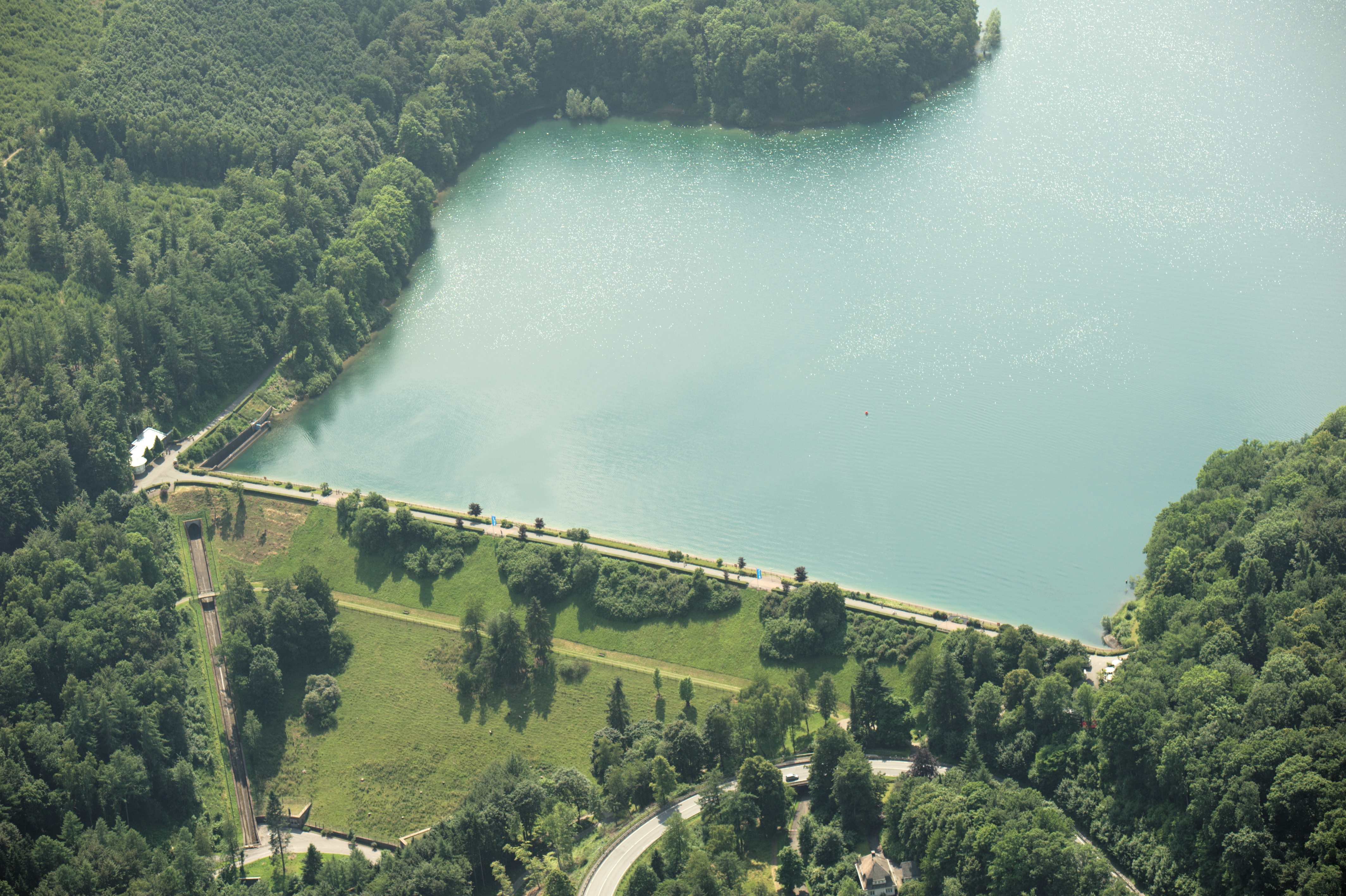 Fotoflug Sauerland-Ost - Staumauer Hennesee The making of this document was supported by the Community-Budget of Wikimedia Germany.